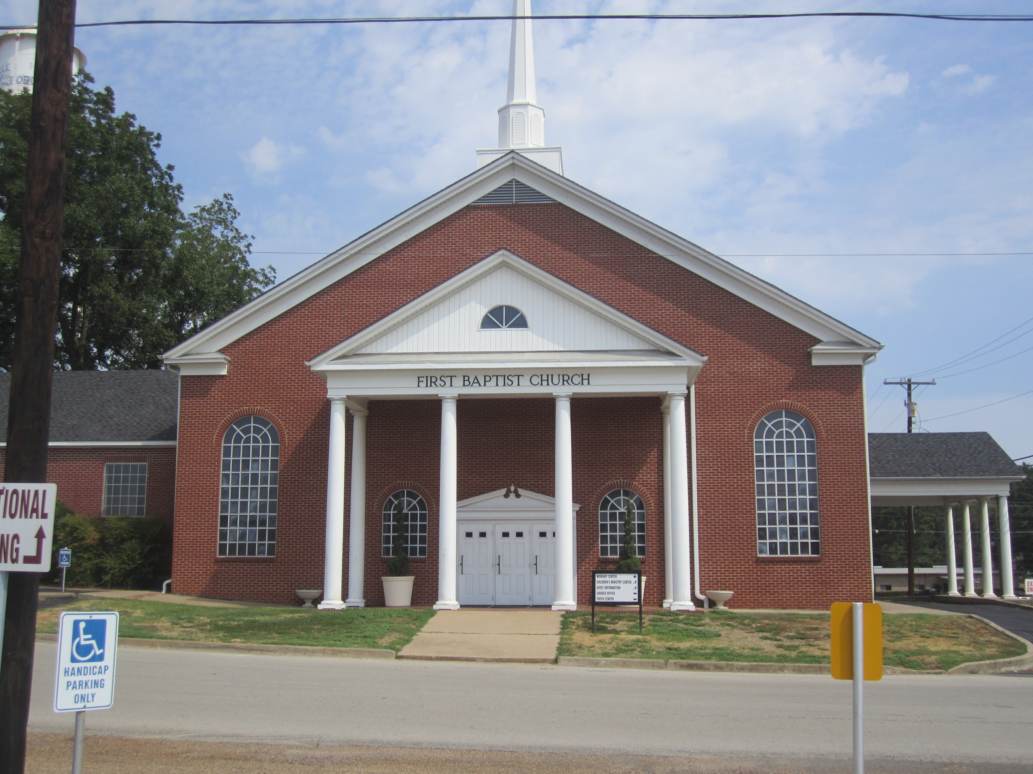 I took photo with Canon camera of First Baptist Church of Hallsville, TX.